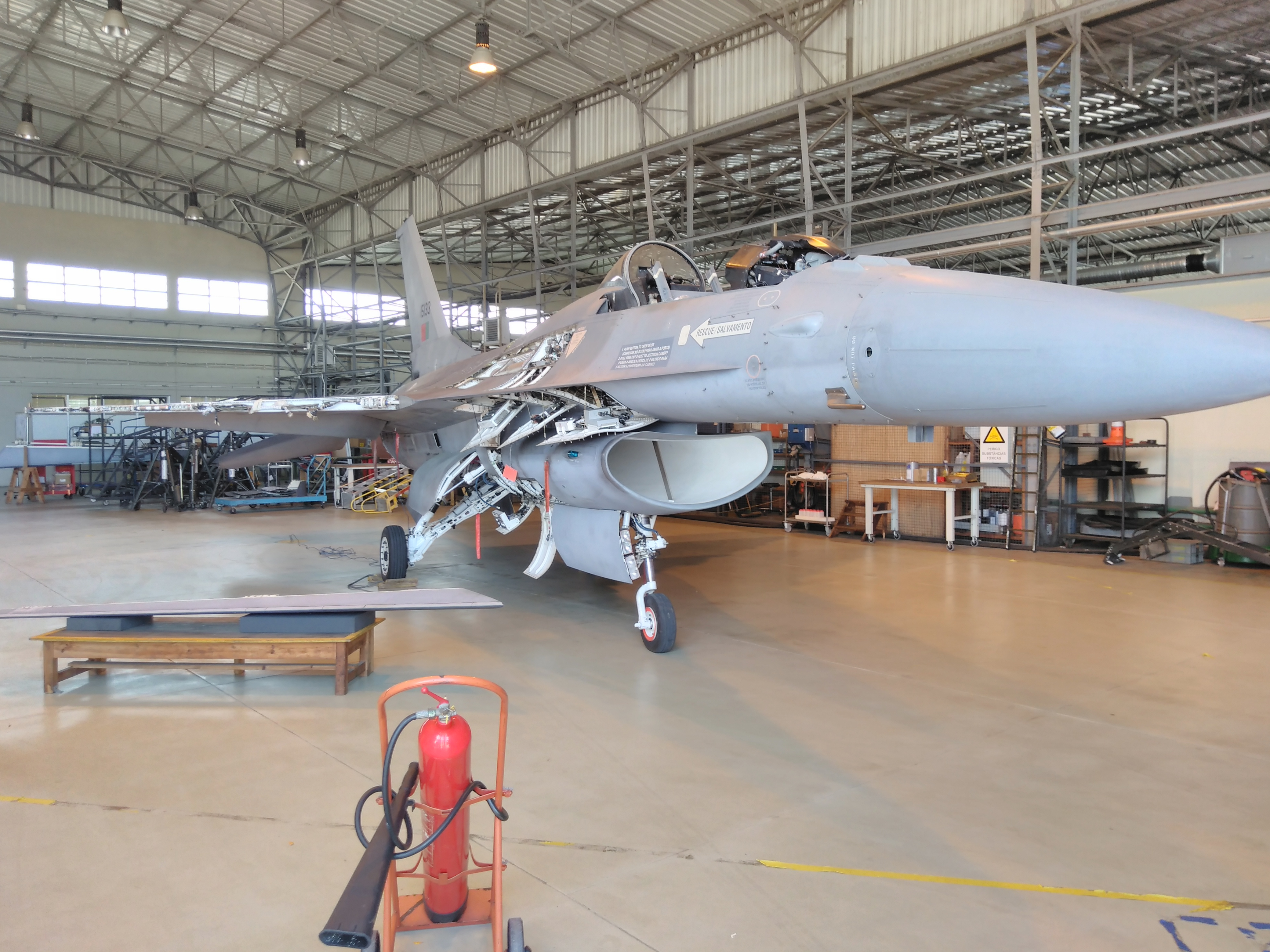 Maintenance of an F-16 Fighting Falcon at Monte Real Air Base